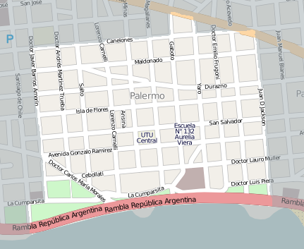 Street map of Palermo, Montevideo, exported from OpenStreetMap. I added shading to delimit the barrio. This map may be incomplete, and may contain errors. Don't rely solely on it for navigation.